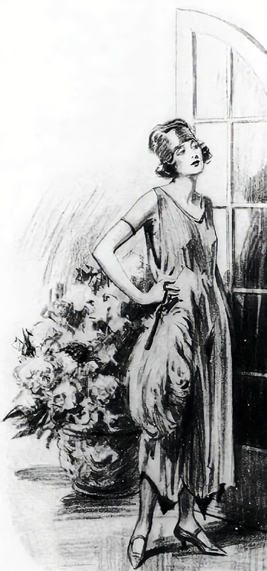 A sketch of the character of Judy Jones by Arthur William Brown for F. Scott Fitzgerald's short story "Winter Dreams" published in Metropolitan magazine, December 1922. The character of Judy Jones was based upon Chicago socialite and flapper Ginevra King, Fitzgerald's first love. King was also the primary inspiration for Daisy Buchanan in The Great Gatsby.